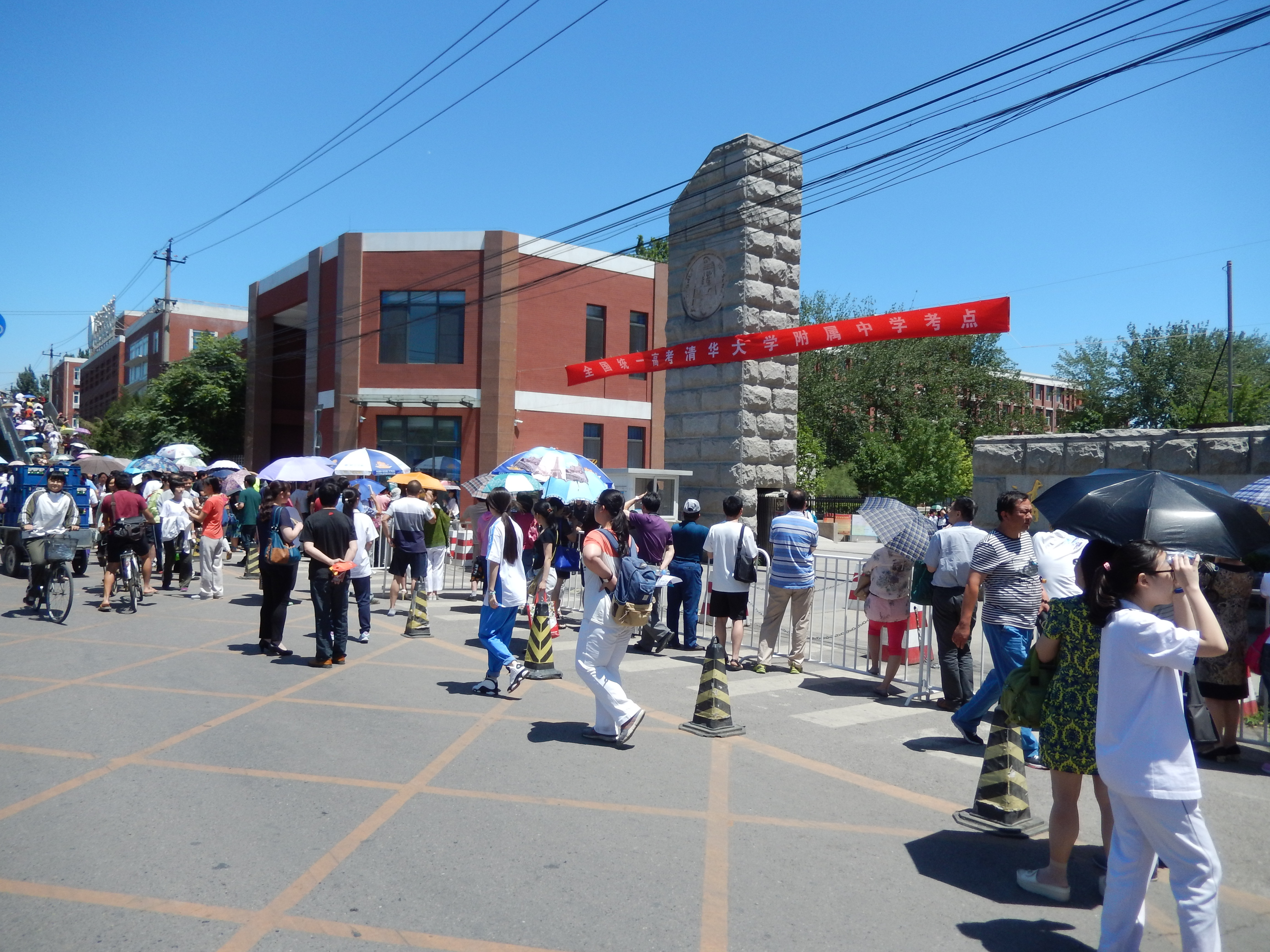 Parents of Gaokao candidates waiting outside the school entrance for their children after the morning session on the second day of Gaokao ended